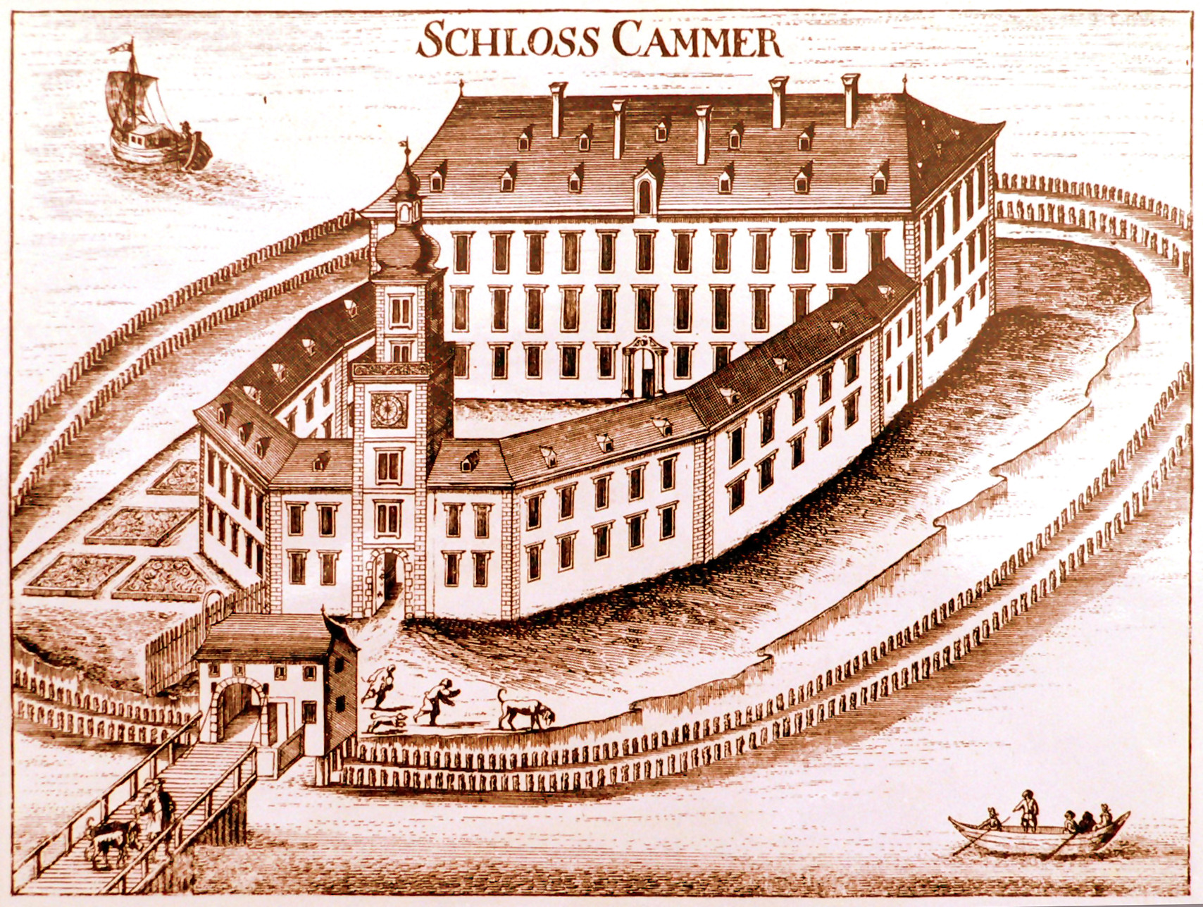 Kammer Castle in Schörfling am Attersee, Upper Austria. Engraving)